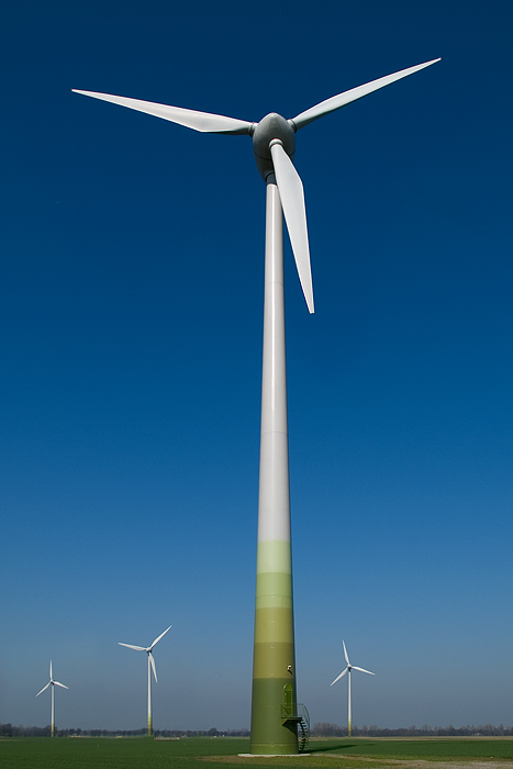 Turbines at the Lower Rhine area, Germany